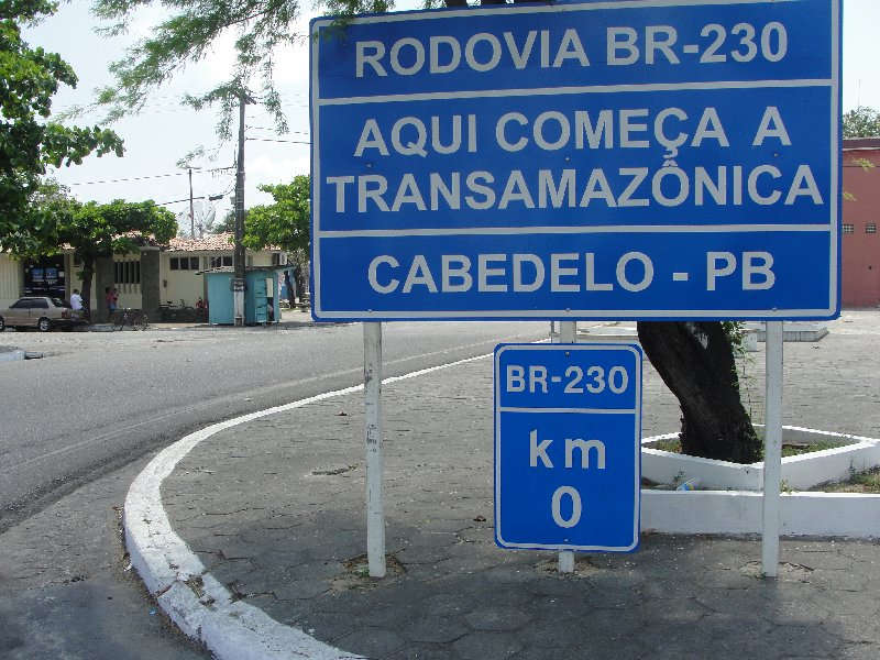 BR-230 - Beginning of the trans-Amazonian highway - Km 0 - Cabedelo, Paraíba - Brazil